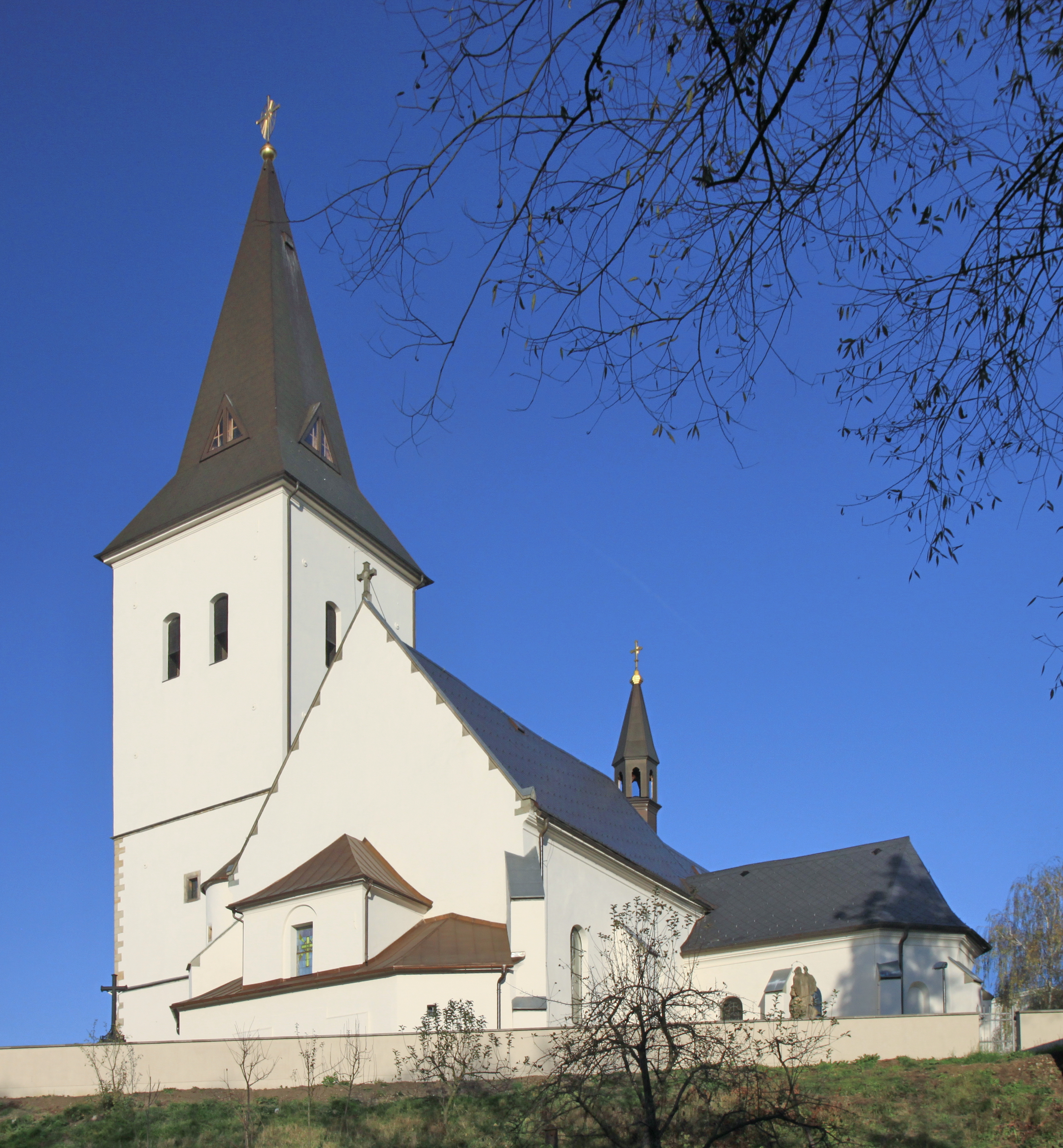 Church of the Exaltation of the Holy Cross, 1a Pivovarská street, Fryštát, Karviná. Moravian-Silesian Region, Czech Republic.